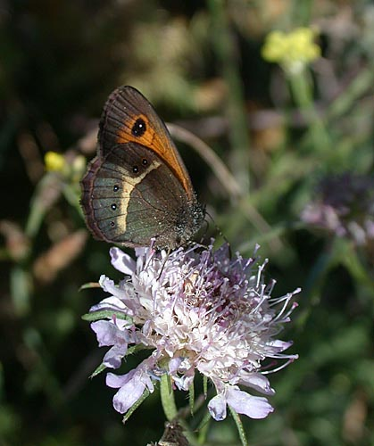 Spanish Gatekeeper (Pyronia bathseba), photographed in Andalucia, Spain